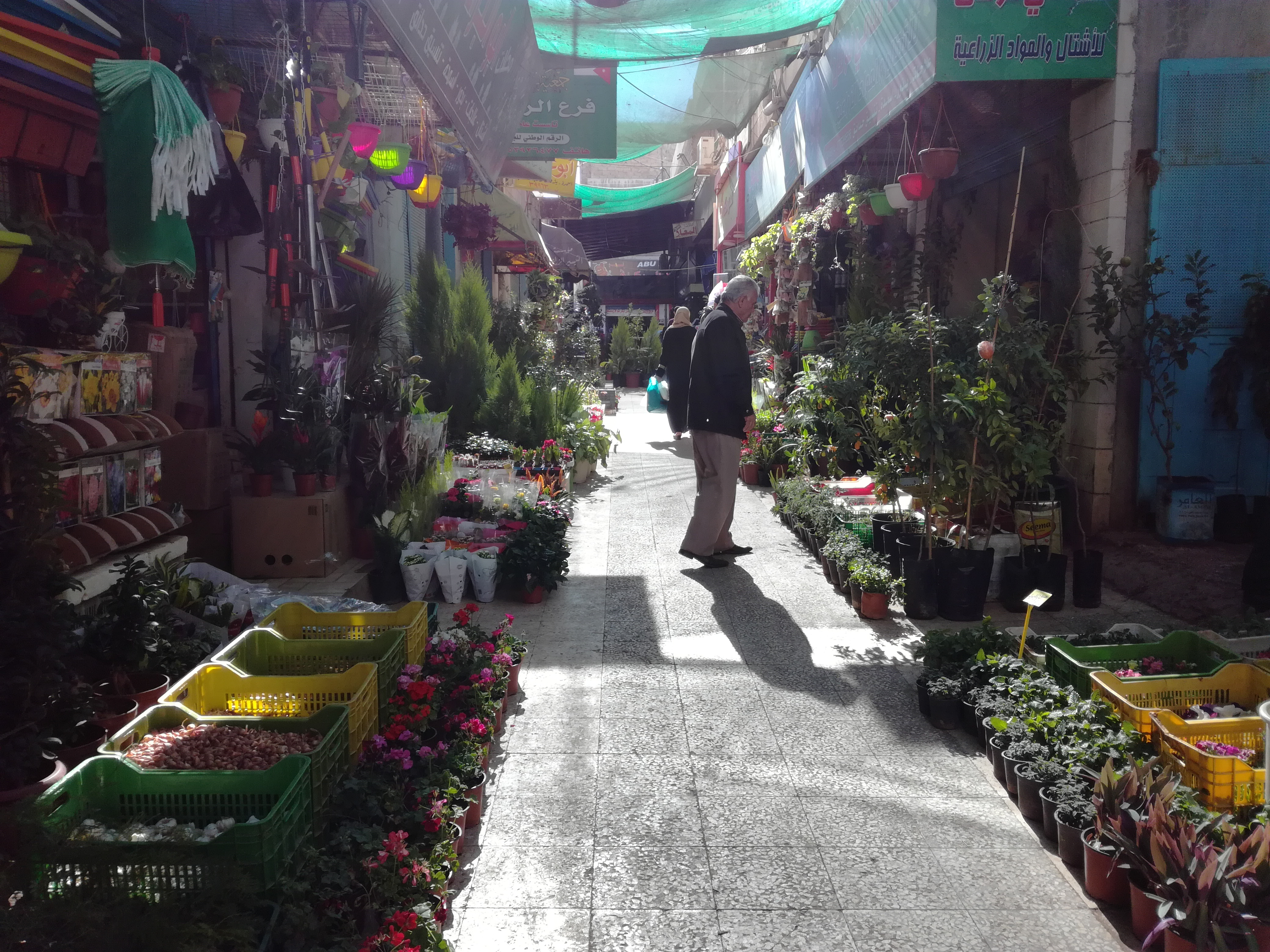 Nurseries for the sale of small plants for planting in houses.